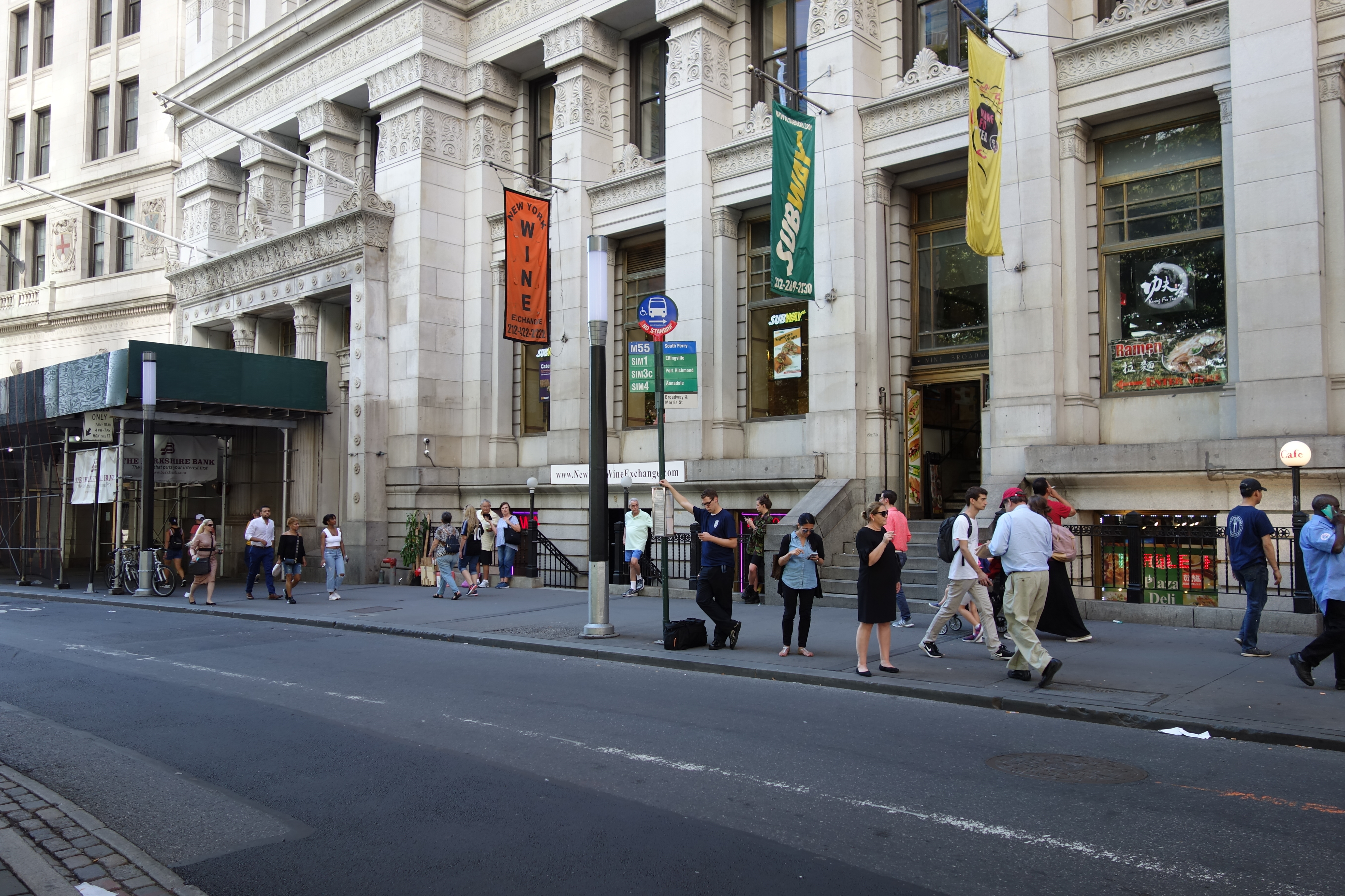 The bus stop for South Ferry-bound M55 local buses and the new SIM- Staten Island express routes in front of the Bowling Green Offices Building, at the south end of Broadway between Morris Street and Battery Place in Bowling Green, Financial District, Manhattan. The SIM1 route replaced the X1 between Lower Manhattan and Eltingville. The SIM3c, which only operates during off-peak hours, replaced the X10 and X12 routes, running to the X10's former terminus in Port Richmond. The SIM4 replaced the X17 route from Manhattan to Staten Island Mall (New Springfield) and Eltingville/Annadale.